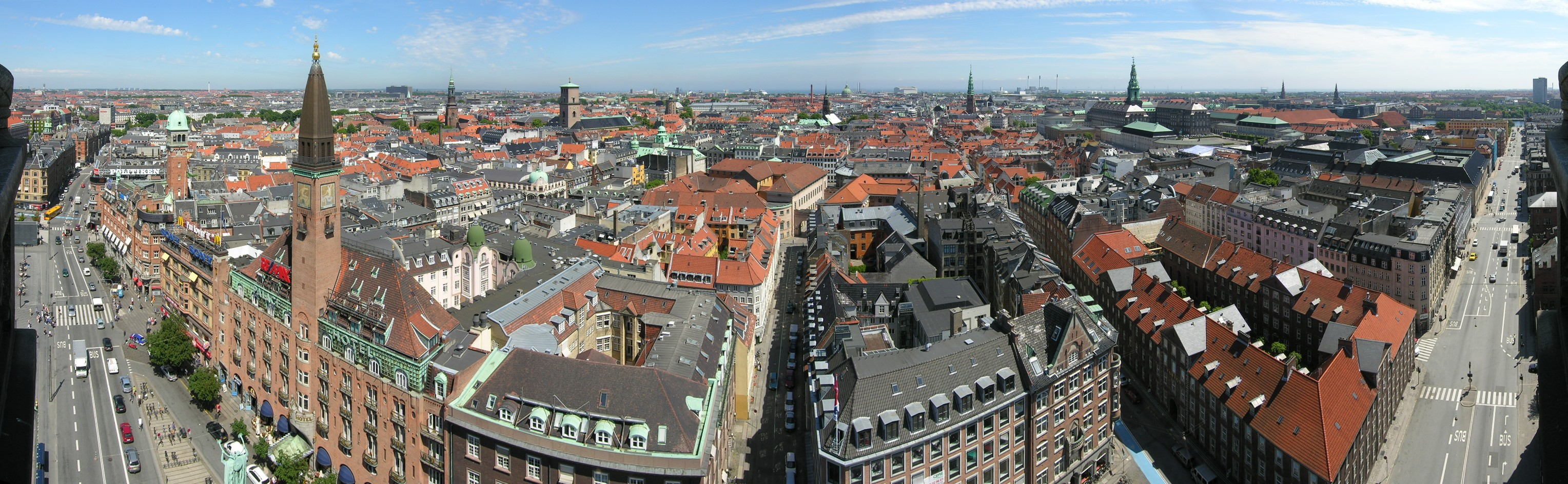 View over Copenhagen